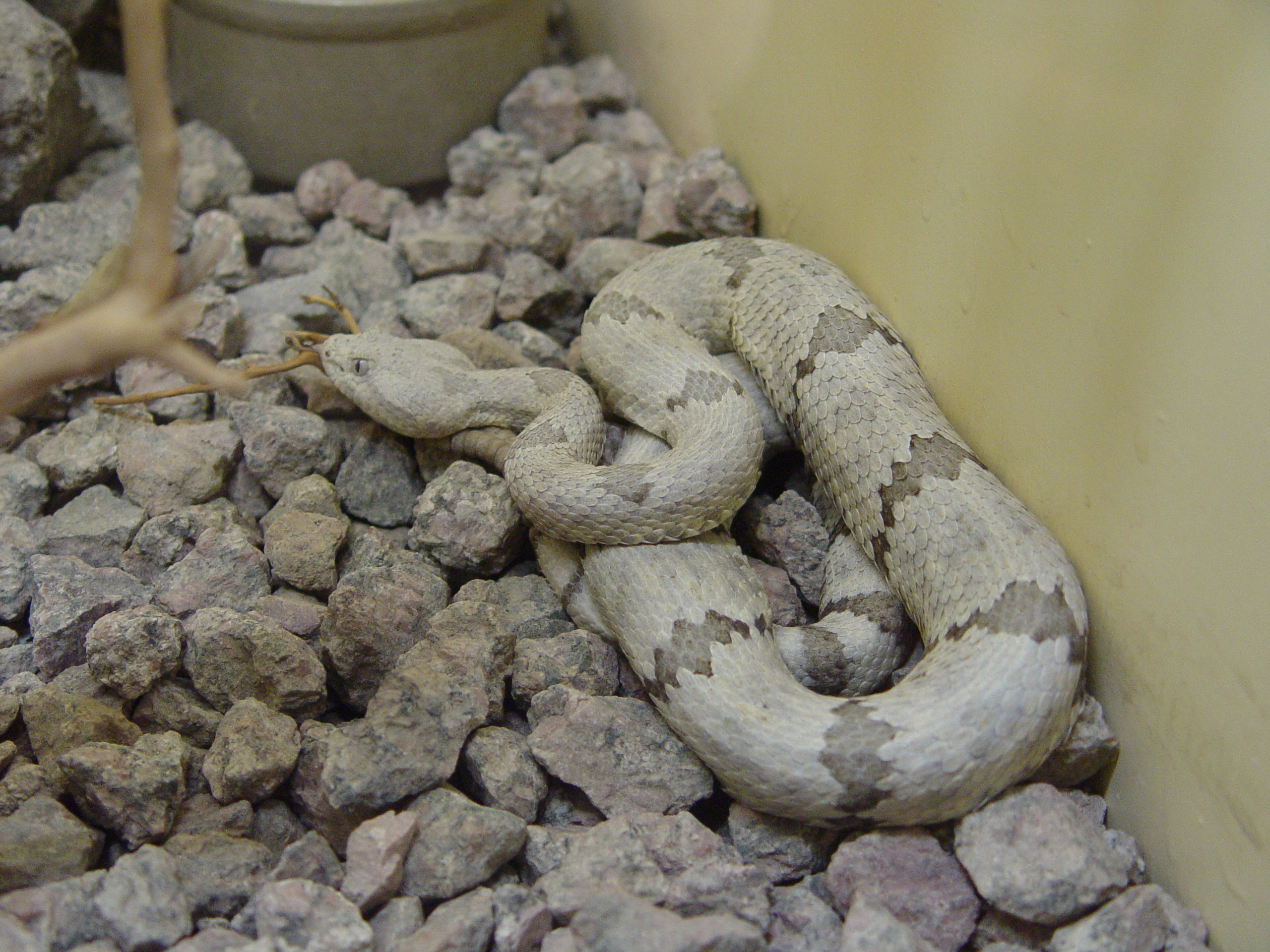 Molted rock rattlesnake (Crotalus lepidus) at the American International Rattlesnake Museum